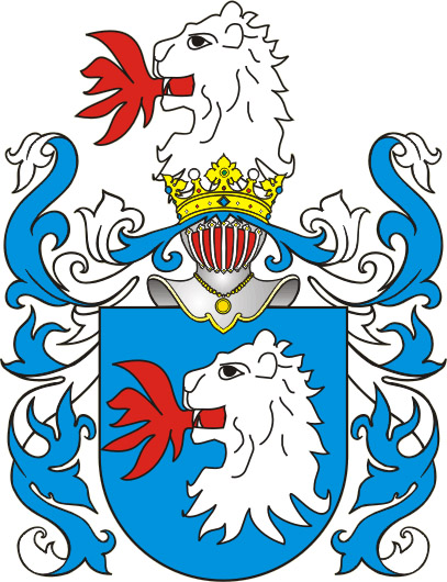 Herb Zadora Zadora Clan This image was uploaded in the JPEG format even though it consists of non-photographic data. This information could be stored more efficiently or accurately in the PNG or SVG format. If possible, please upload a PNG or SVG version of this image without compression artifacts, derived from a non-JPEG source (or with existing artifacts removed). After doing so, please tag the JPEG version with Superseded|NewImage.ext and remove this tag. This tag should not be applied to photographs or scans. For more information, see BadJPEG . File:POL COA Zadora.svg is a vector version of this file. It should be used in place of this raster image when not inferior. File:Herb Zadora.jpg File:POL COA Zadora.svg For more information, see Help:SVG. In other languages